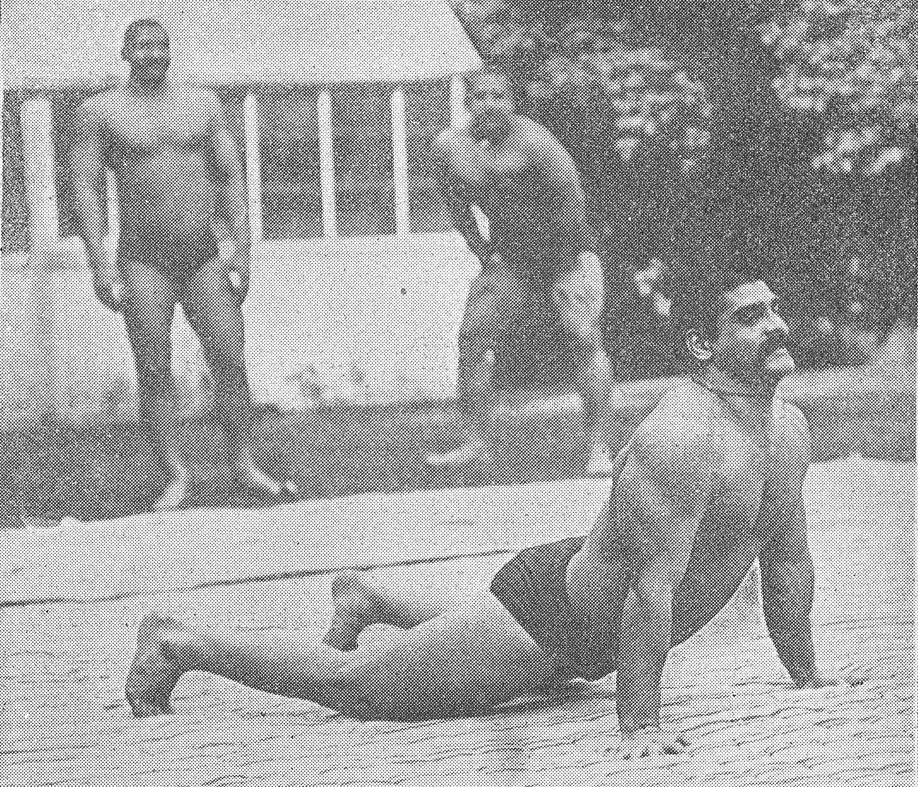 A photo of a dand (a.k.a. Hindu push-up) being performed by an Indian wrestler. The wrestler is possibly the famous 'Great Gama'.